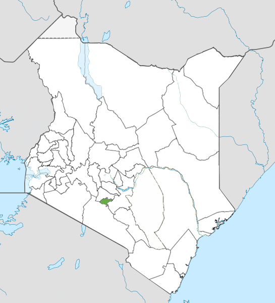 Location of Nairobi County